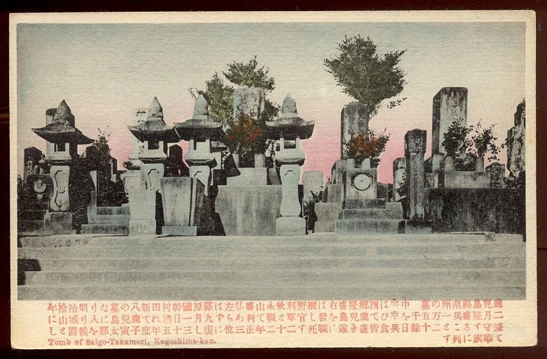 The tomb of Saigo Takamori and some of his samurai at Nanshu Cemtery in Kagoshima, Japan. Postcard